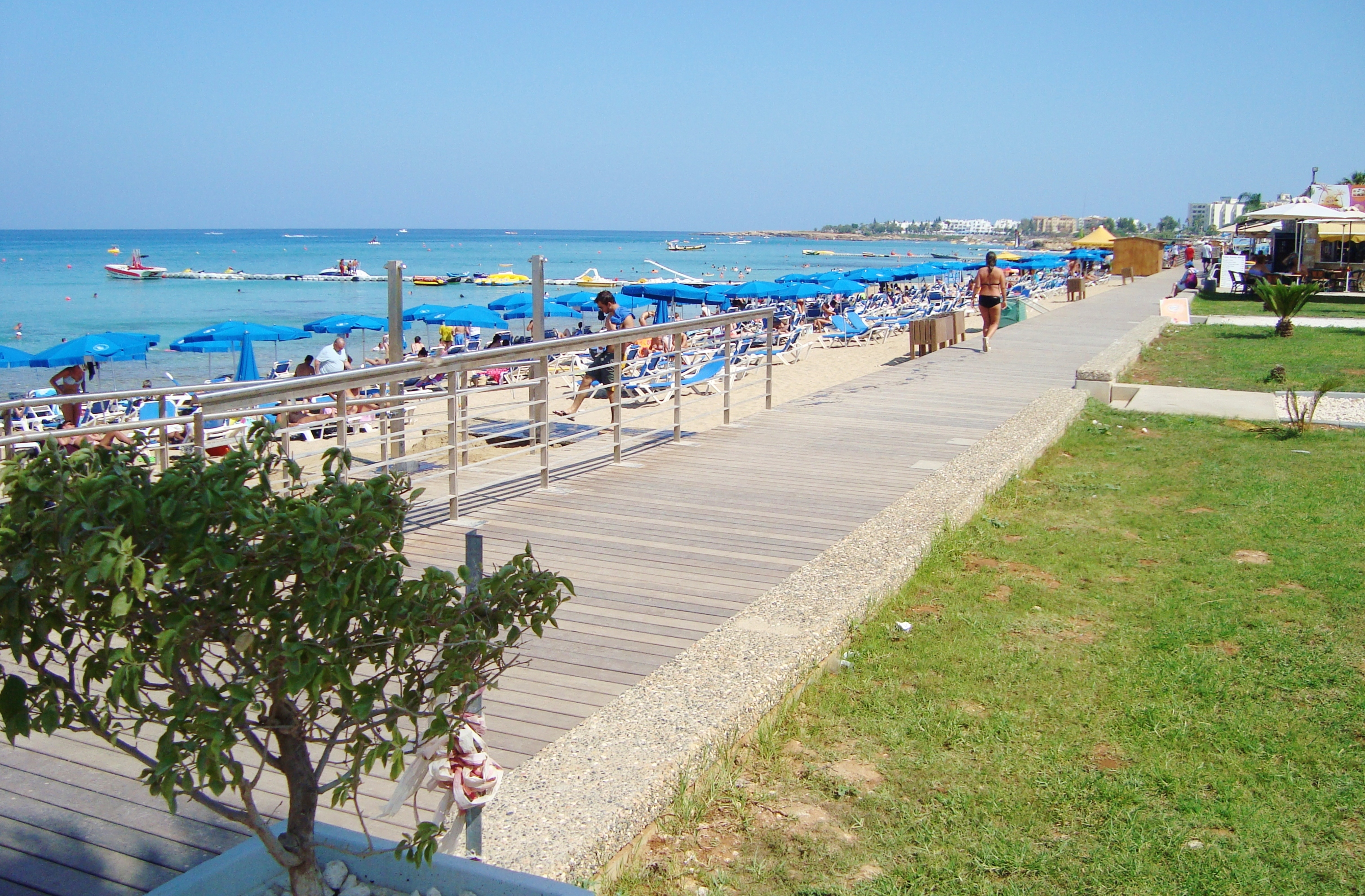 Modern new pedestrian seaside road next to Protaras beach in Paralimni